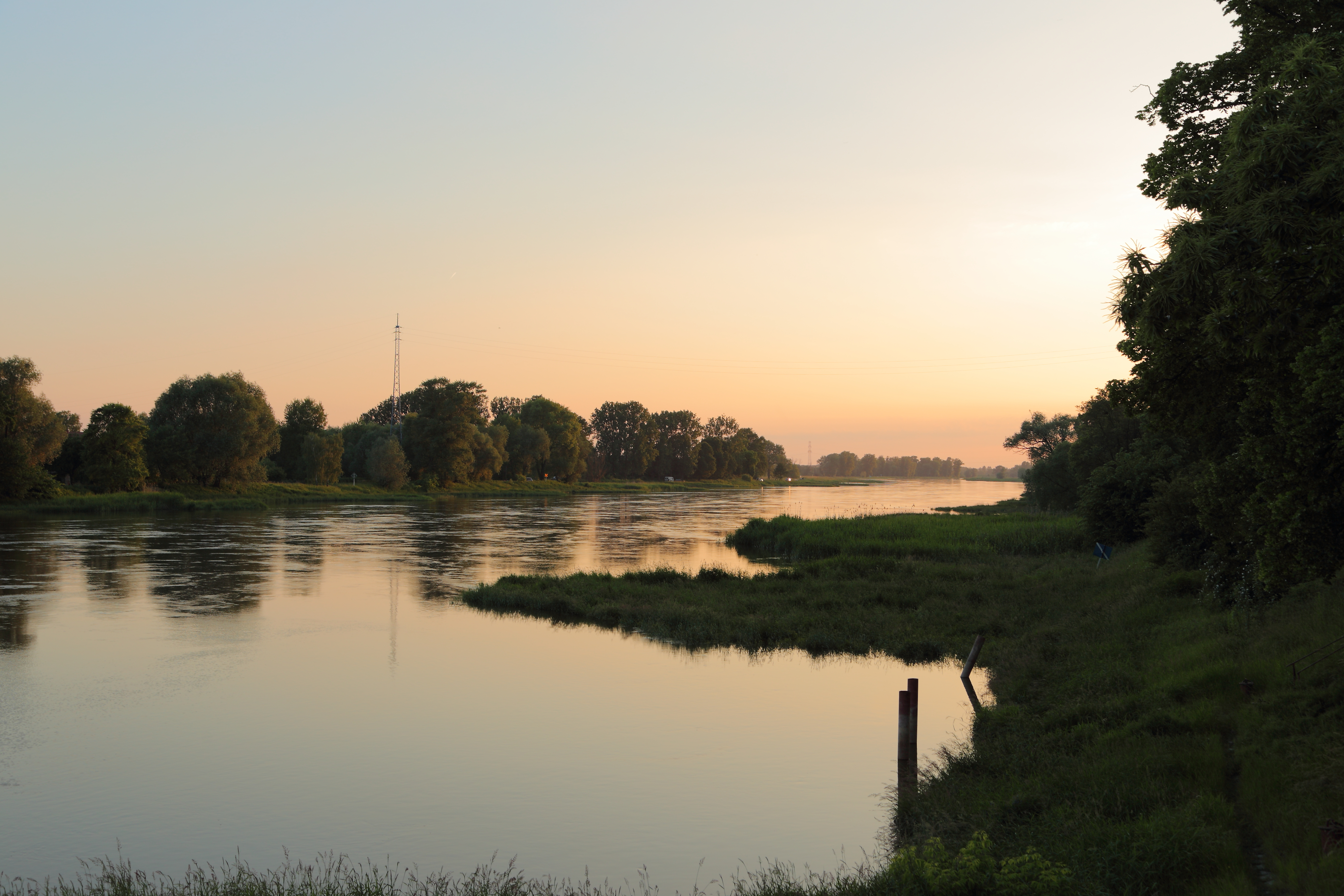 The Oder River (Odra) in Krosno Odrzańskie, Lubusz Voivodeship, Poland.